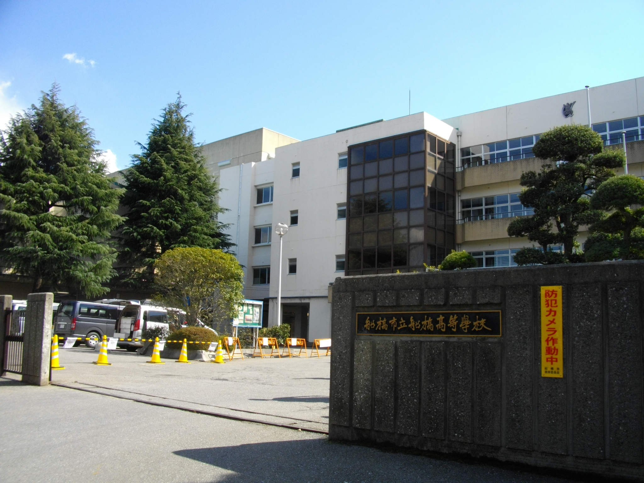 Funabashi Municipal High School